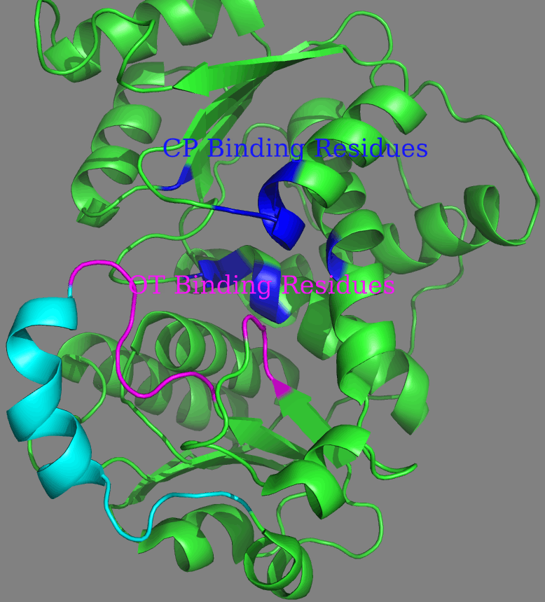 This is a monomer of Ornithine Transcarbamylase. Binding residues of the protein are highlighted as well as the SMG loop which plays and important role in reactivity.